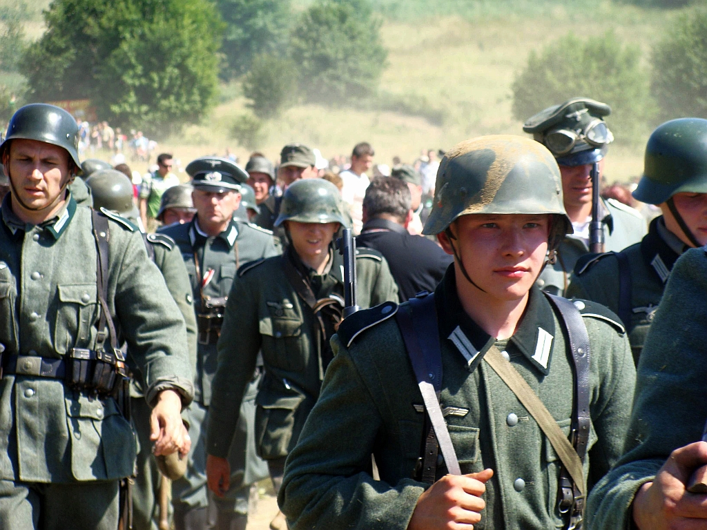 Wehrmacht re-enactors recreate the battle of Molotov Line in Sanok-Olchowce. (Poland) 2008. June 22. (Sanok Historical Group Living History "San" from Sanok)